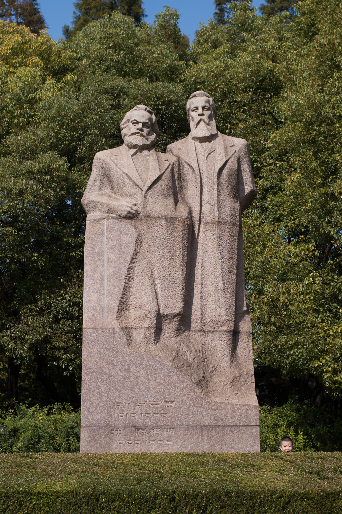 Statue of Karl Marx and Friedrich Engels in Shanghai's Fuxing Park.